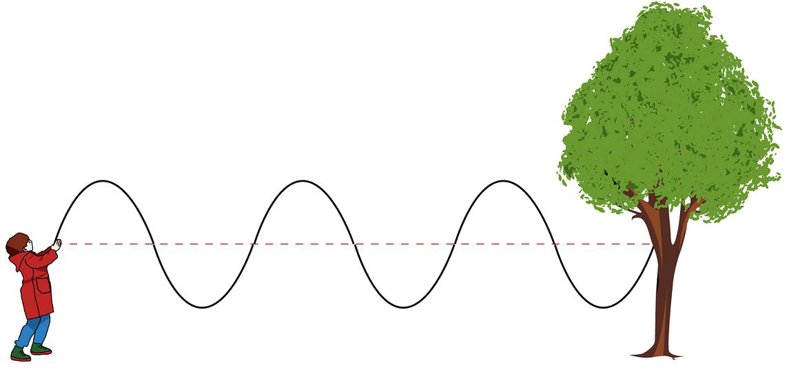 Wave in a rope.